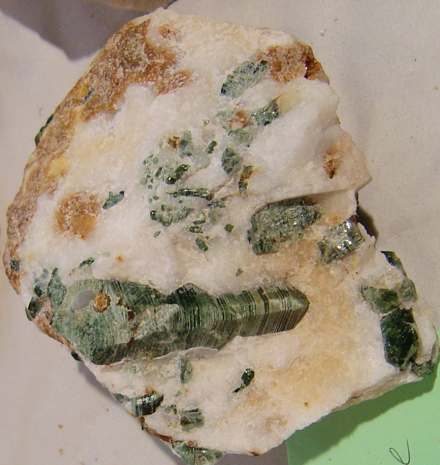 diopside I took this photo in october 2005